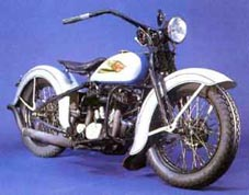 Vauxhall Luxury Motorcylcle